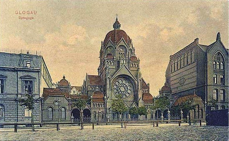 Synagogue of Glogau (1892-1938) destroyed by the nazis during Kristal Nacht